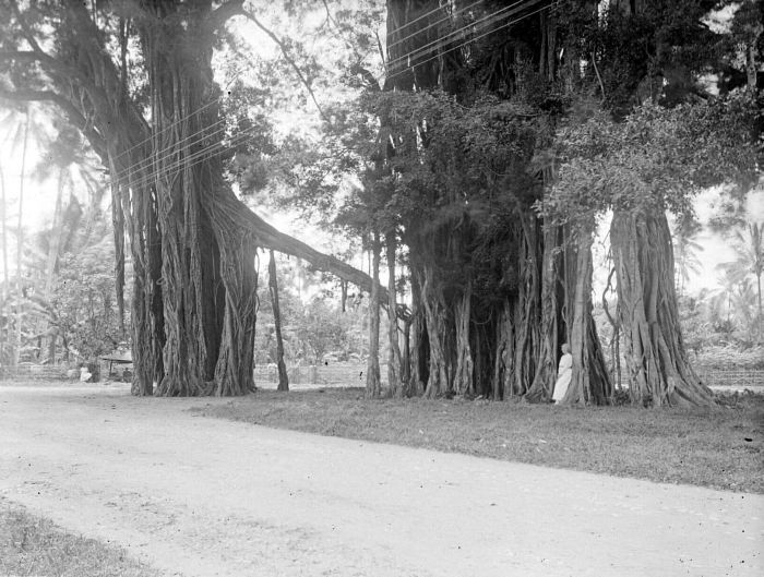 A waringin tree in the village Gadungan, Java.